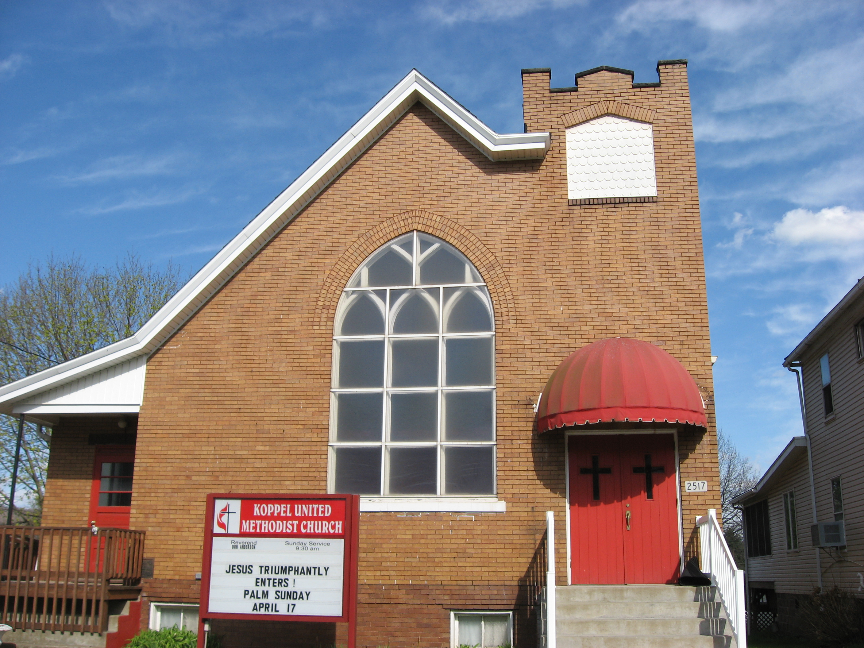 Front of the Koppel United Methodist Church, located at 2517 Second Avenue in Koppel, Pennsylvania, United States.